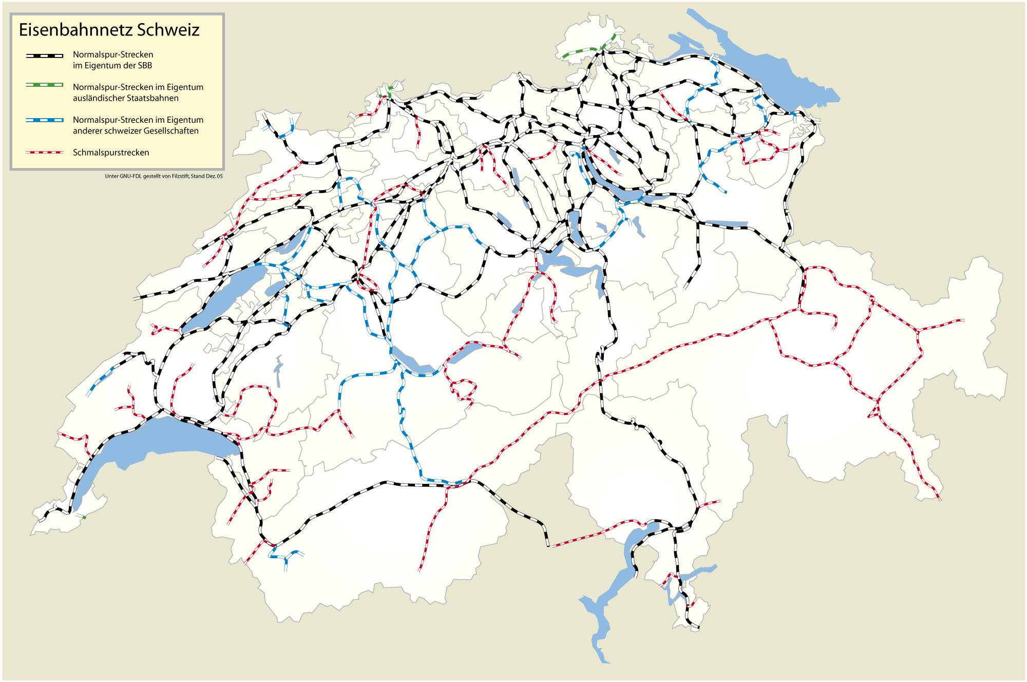 A drawing of the Swiss railwaysystem.